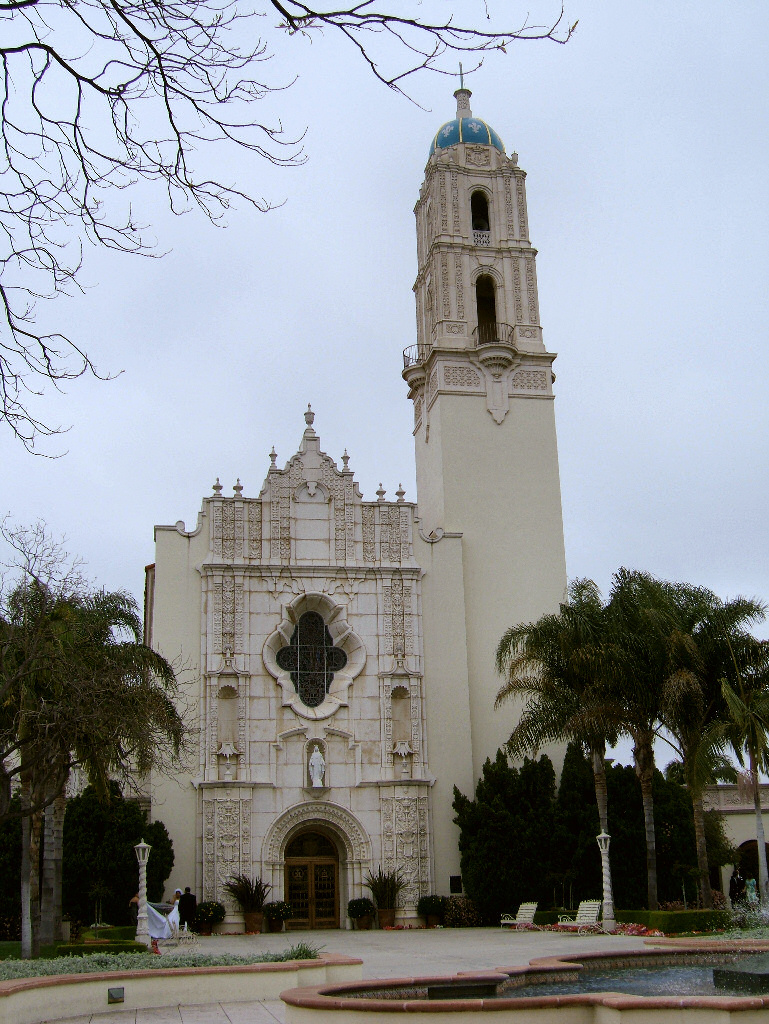 The Immaculata Parish Church at the University of San Diego. This is an original work created by me and released under the following license